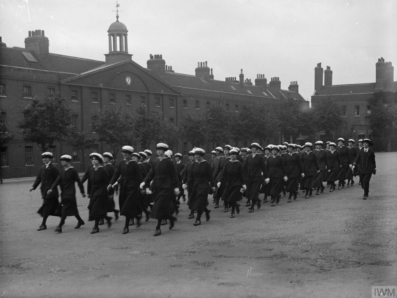 The Women's Royal Naval Service on the Home Front, 1917-1918 WRNS Officers and ratings drilling, Royal Marine barracks, Chatham.